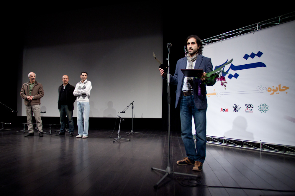 Sheed Award Ceremony